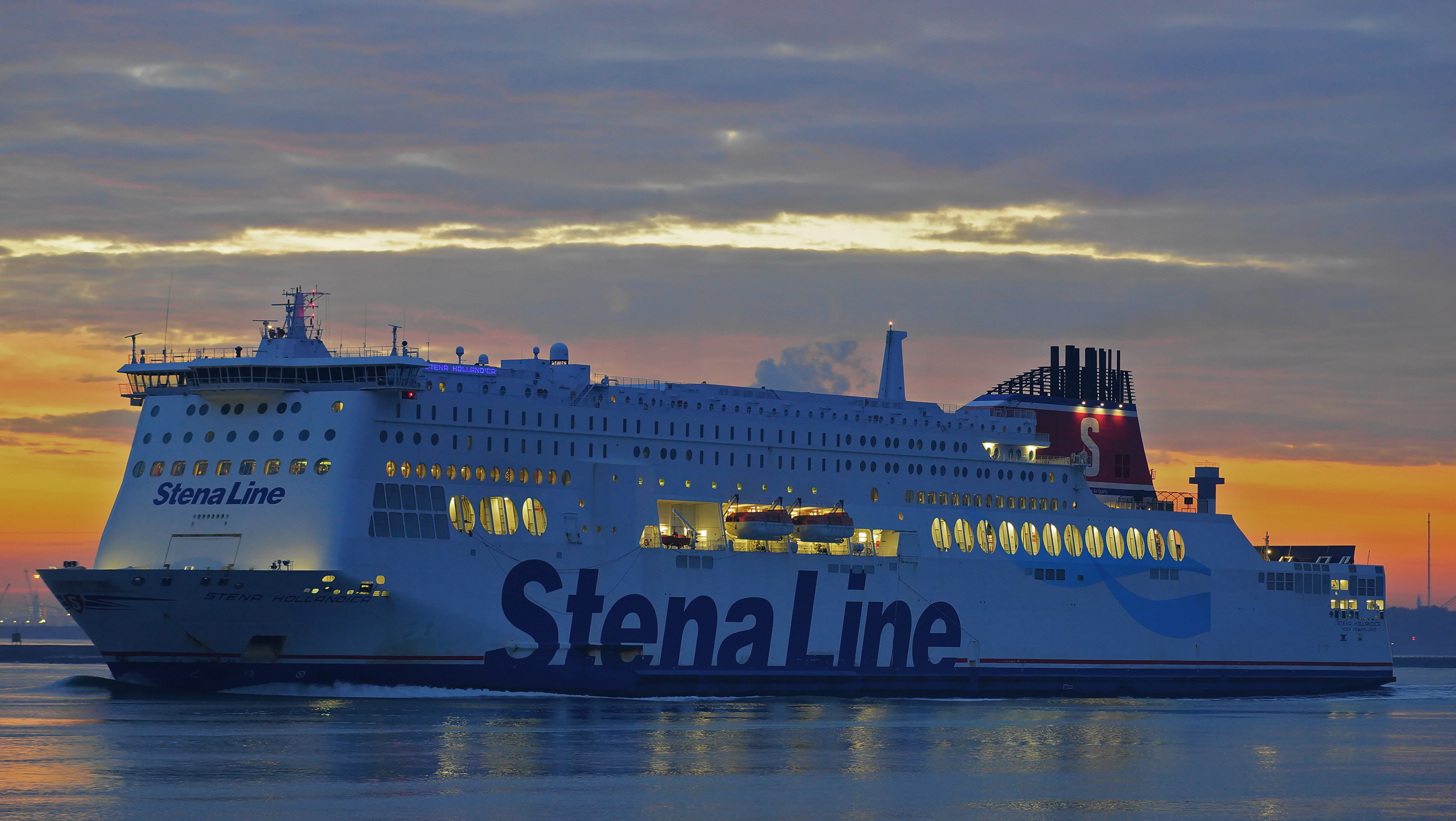 Stena Hollandica IMO Number: 9419163 MMSI Number: 244758000 Callsign: PBMM Length: 240 m Beam: 32 m